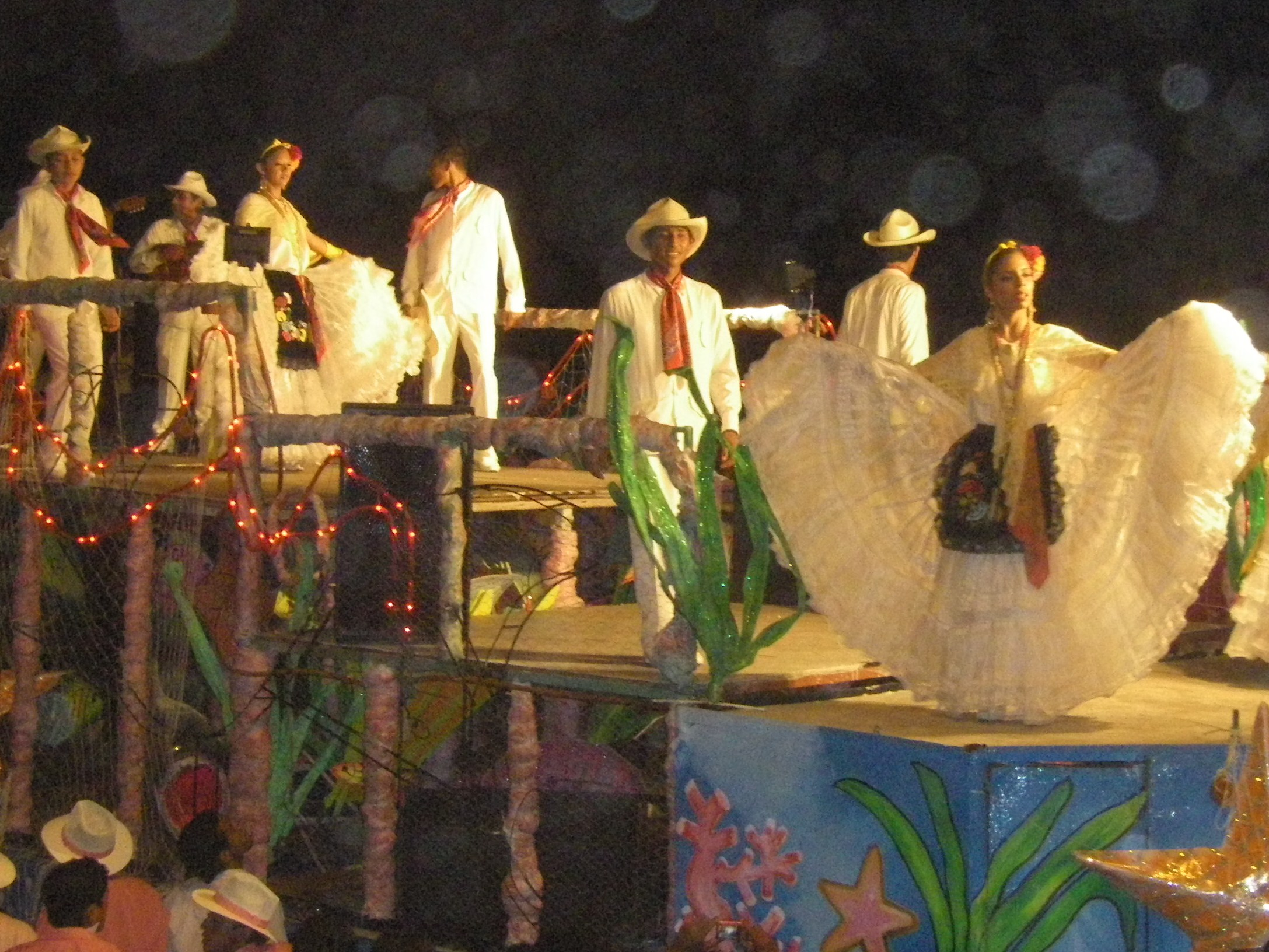 Traditional (dancer's) costume of Veracruz. Veracruz carnival traditional costume of dancers